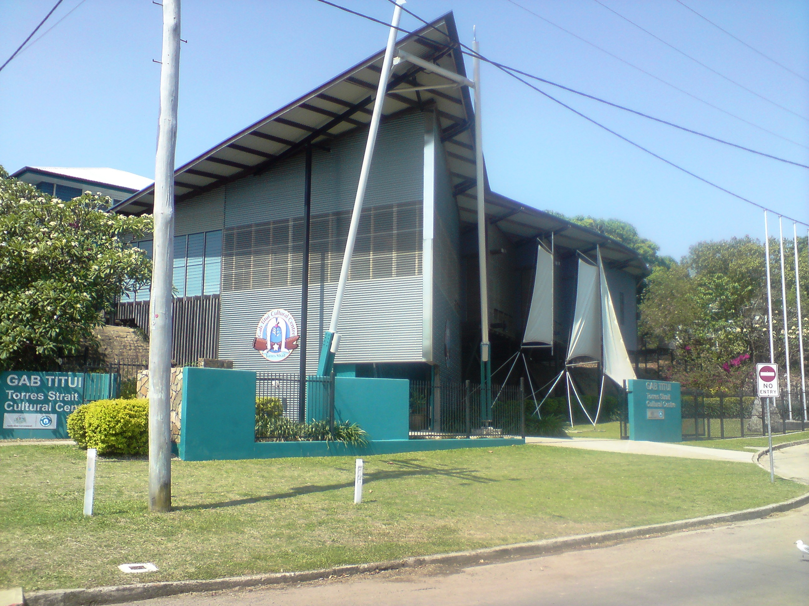 Gab Titui Cultural Centre located on Thursday Island, Torres Strait.